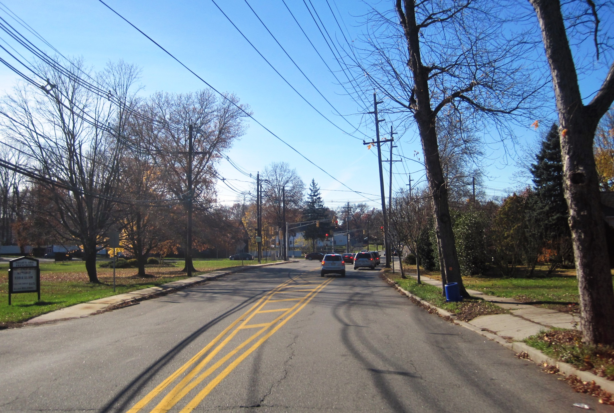 Photo of Dunhams Corners, New Jersey, an unincorporated community within East Brunswick, Middlesex County. Photo taken along southbound Dunhams Corners Road at Ryders Lane (County Route 617).